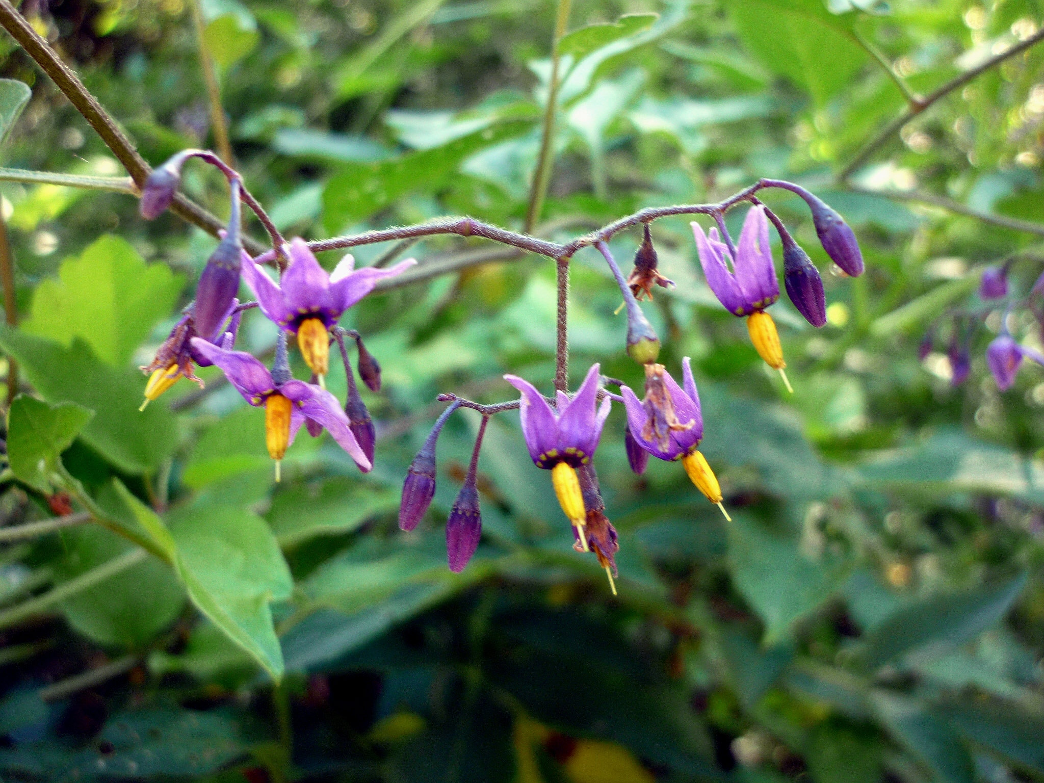 Solanum dulcamara. In Torà (Segarra - Catalunya). To 570 m. altitude